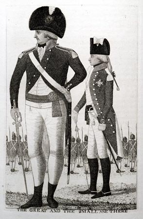 Major-General Roger Aytoun and Duc d'Angouleme by John Kay from 1797